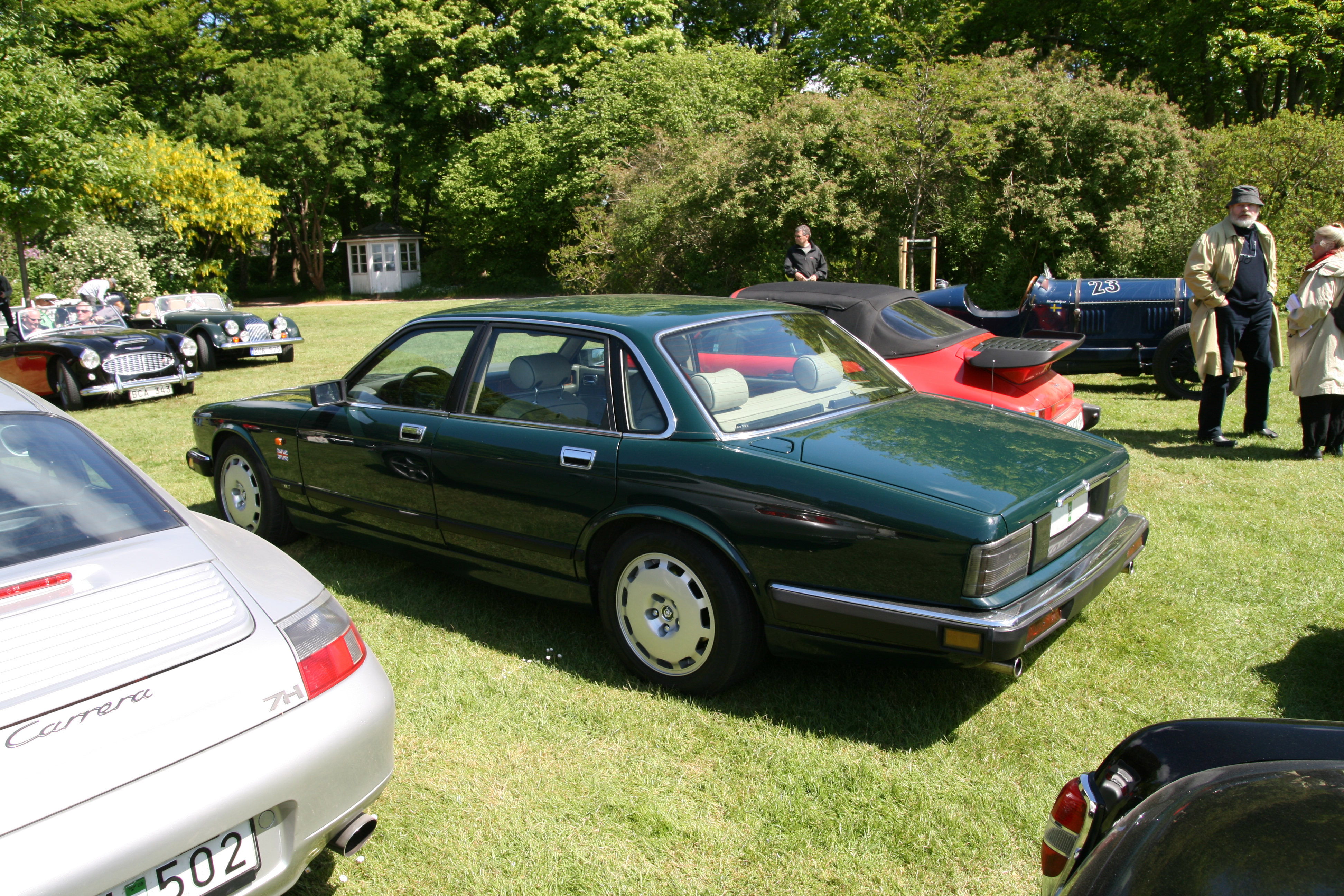 Rear left view of a 1993 Jaguar XJR parked at the Sofiero Classic car show at Sofiero castle in Helsingborg, Sweden.